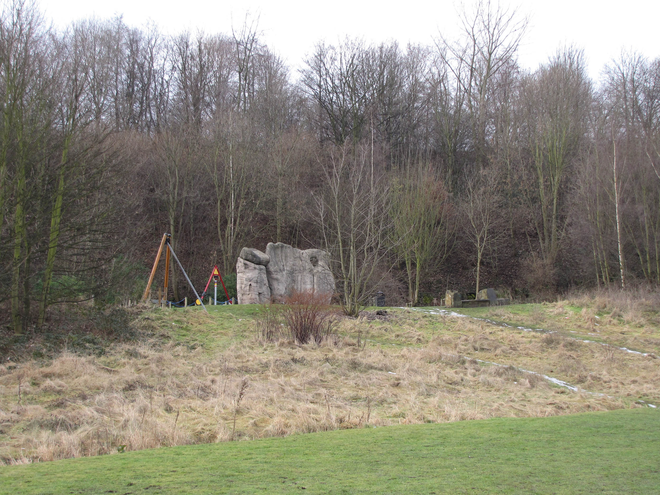 The Ponderosa Open Space & Recreation area in Sheffield, South Yorkshire, England. The upper part is wooded and has an adventure playground.